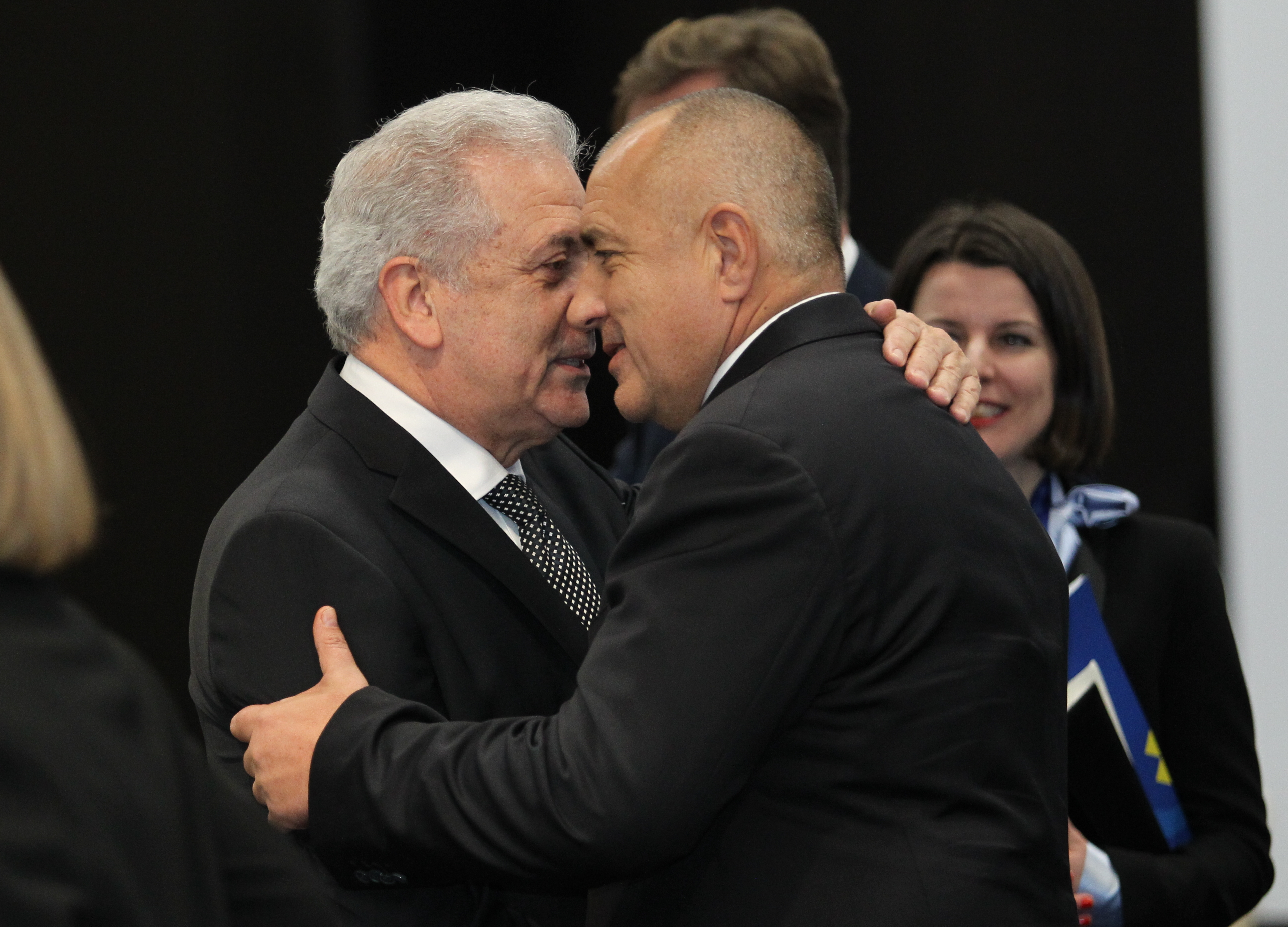 Commissioner Dimitris Avramopoulos, Migration, Home Affairs and Citizenship (left), Boyko Borissov, Prime Minister of the Republic of Bulgaria (right) Photo: Oleg Popov (EU2018BG)